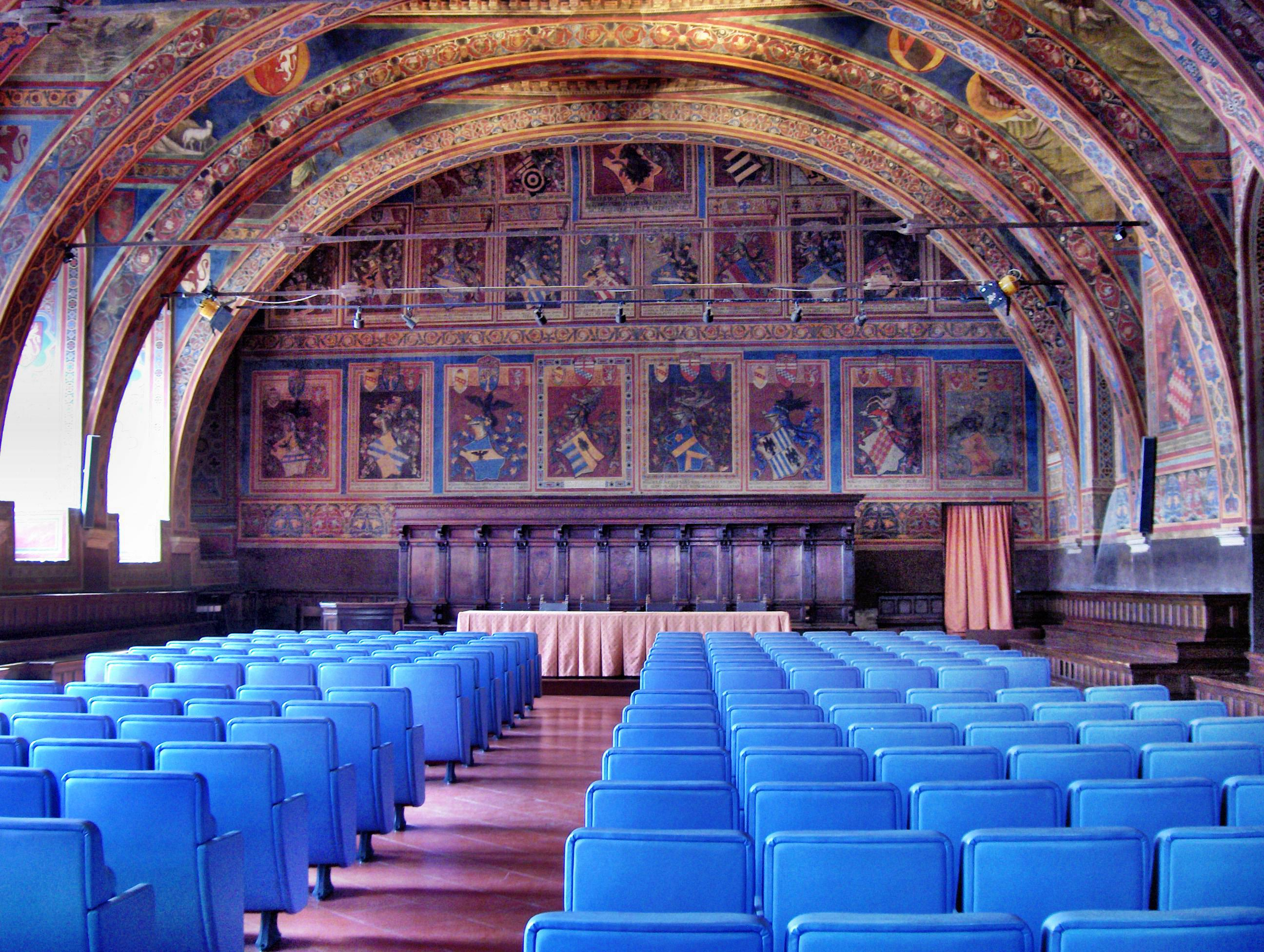 Sala dei Notari, Palazzo dei Priori, Perugia, Italy